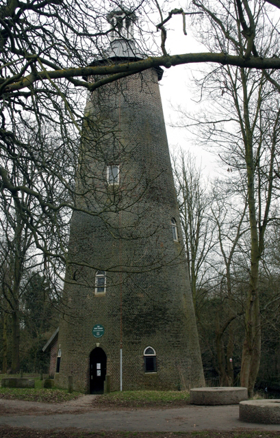 The Shot Tower at Crane Park, Twickenham (now thought to have been a watch tower not a shot tower)